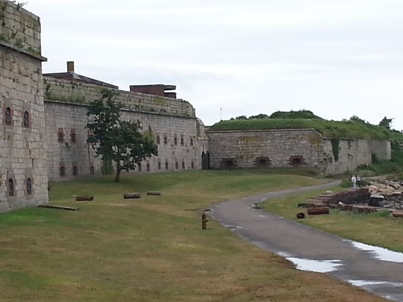 Partial view of the west front of Fort Adams, Newport, Rhode Island in 2016.